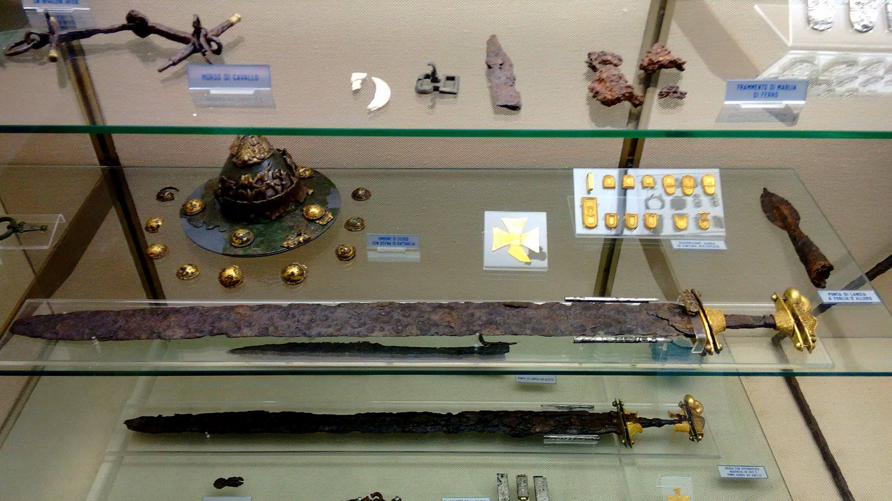 swords find in the MaMe